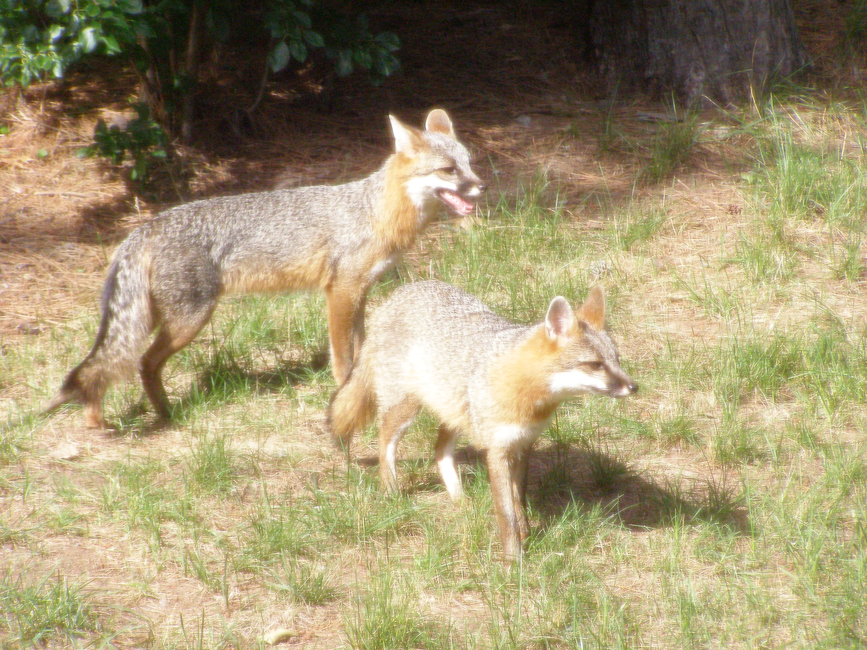 Adult Male & Female Grey Fox